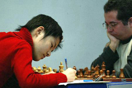 A picture of Hou Yifan (foreground) I took at the World Team Chess Championships in November 2005.